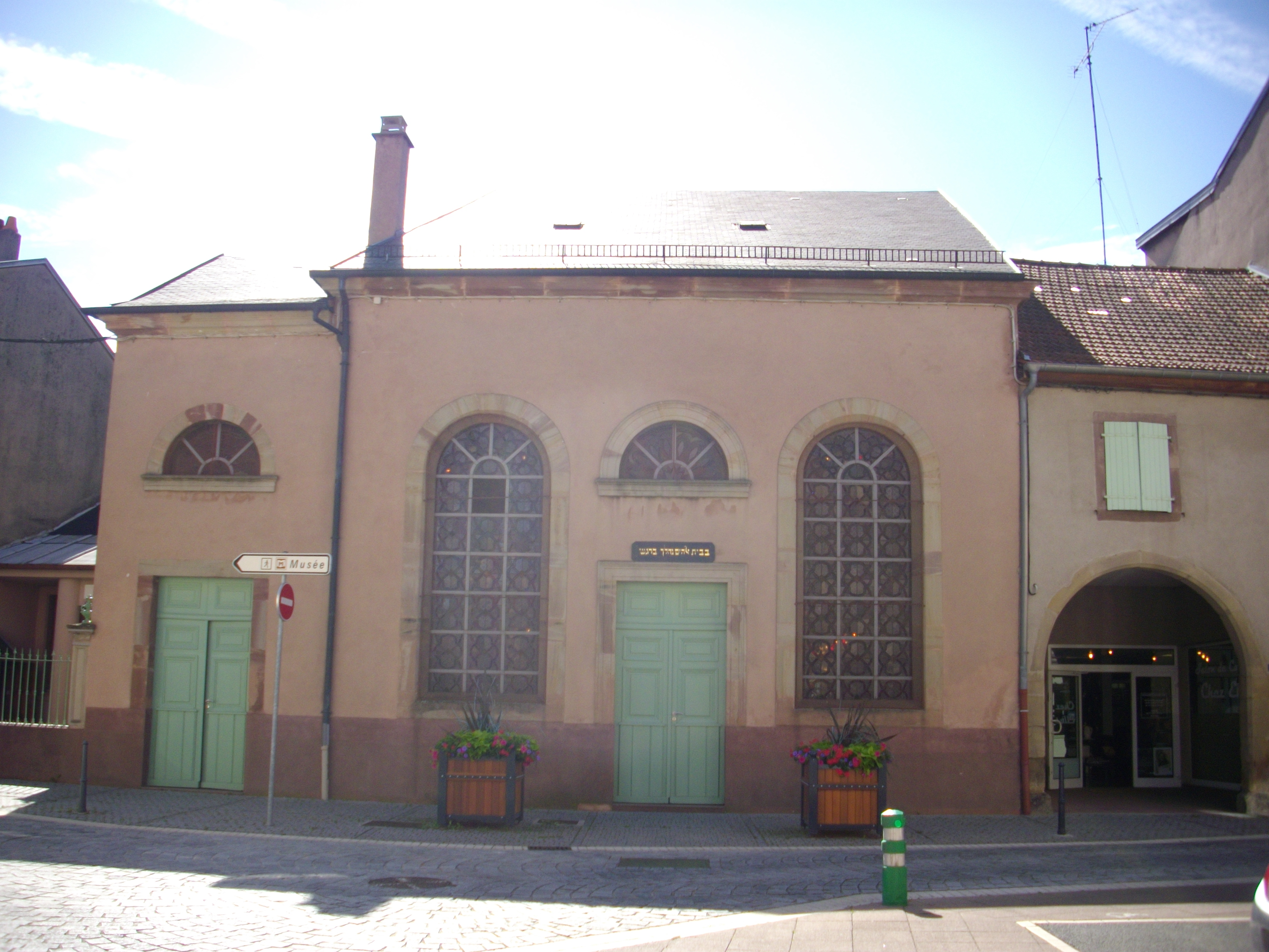 Synagogue of Sarrebourg (Moselle, France) .